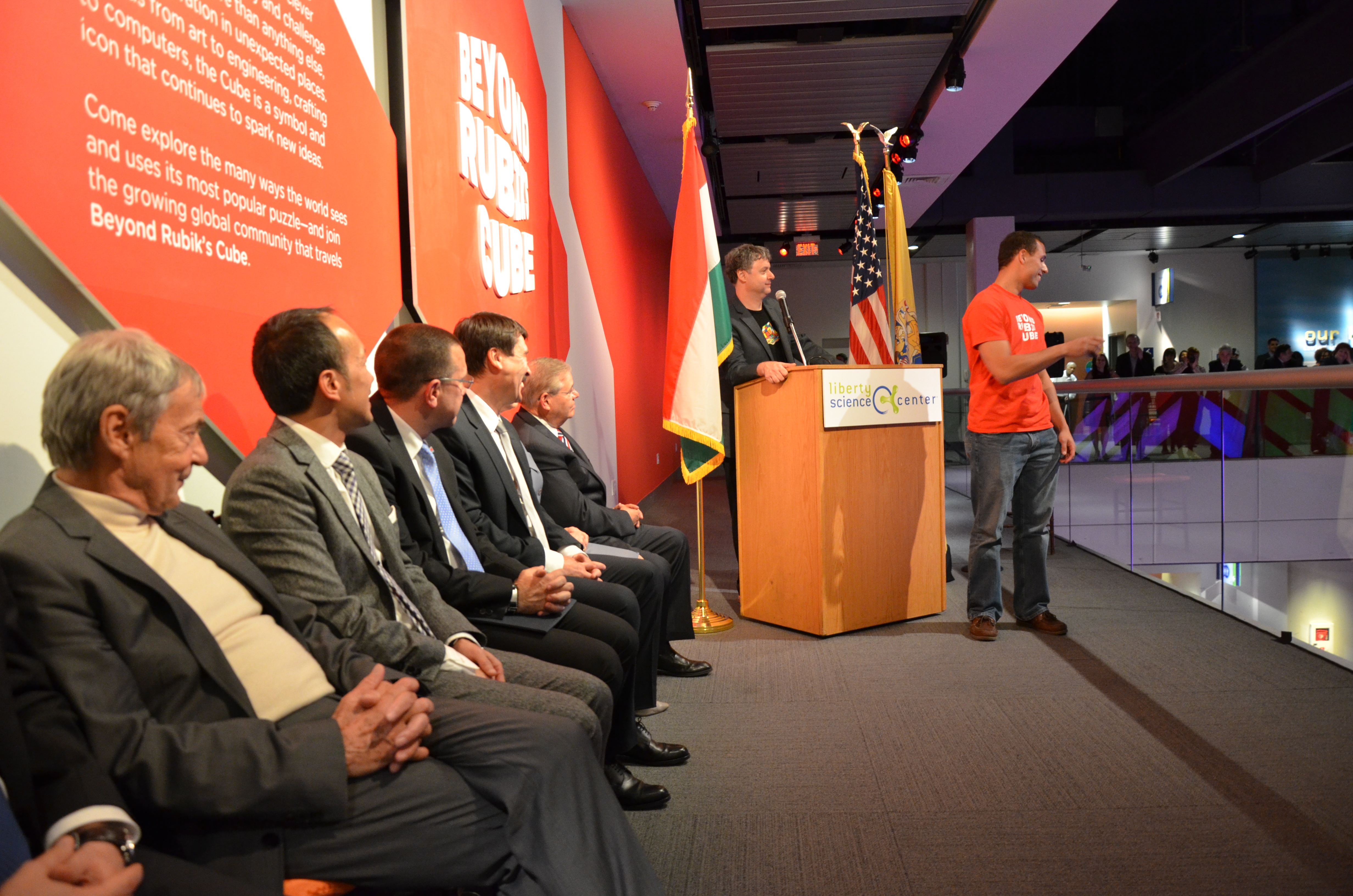 Liberty Science Center CEO, Paul Hoffman, speedcuber Anthony Brooks, Budapest inventor Erno Rubik, NJ Lt. Gov. Kim Guadagno, US Senator Robert Menendez, and Hungarian President Janos Ader at the opening of the Beyond Rubik's Cube museum exhibition.